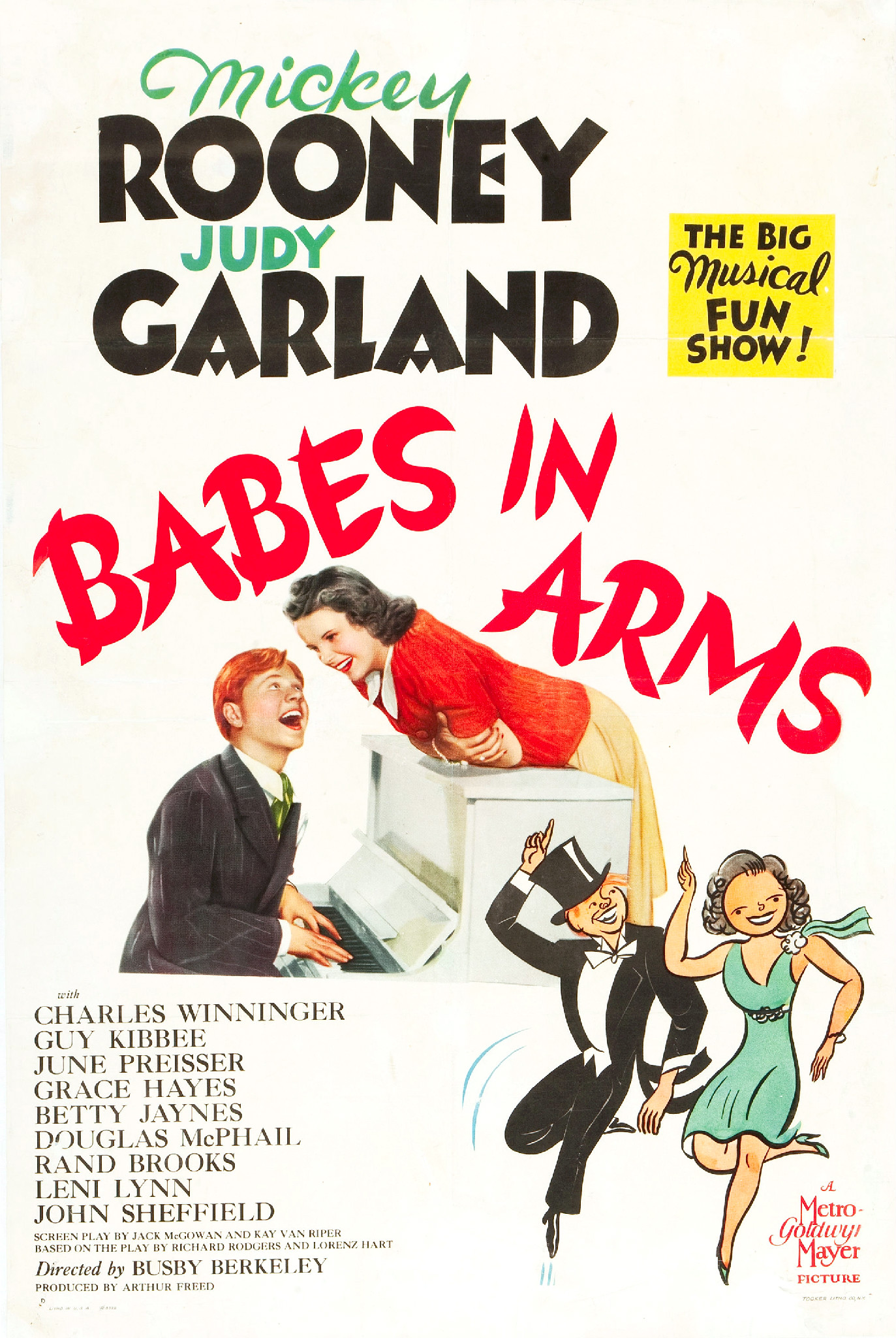 Poster for the 1939 film Babes in Arms. The item has no copyright marks on it as can be seen at links and original upload. At bottom left is "D" (poster version D), Litho in USA, and #3932. At bottom right is Tooker Litho Co, NY-they printed the poster.